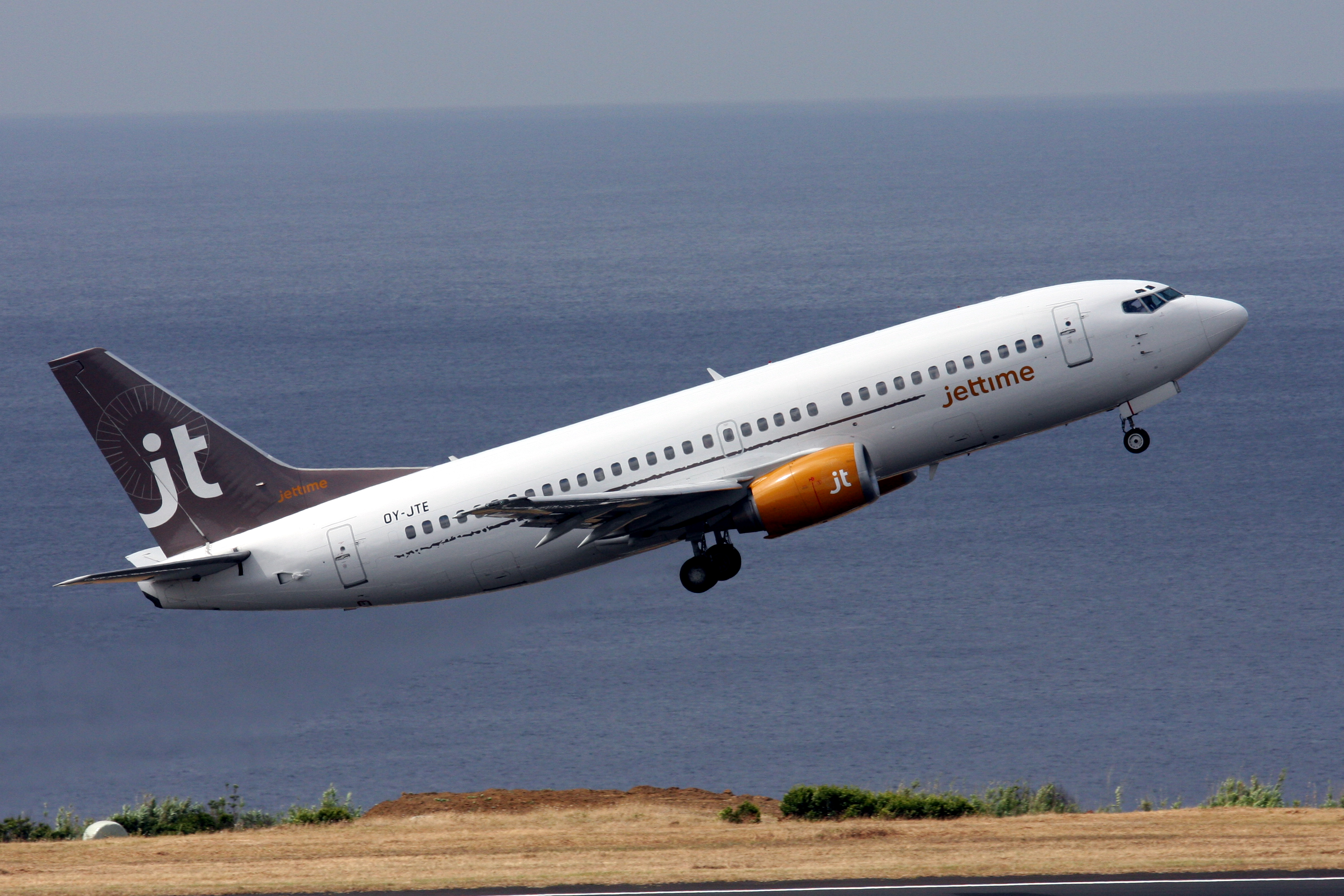 A Boeing 737-300 from Jettime taking-off at João Paulo II Airport